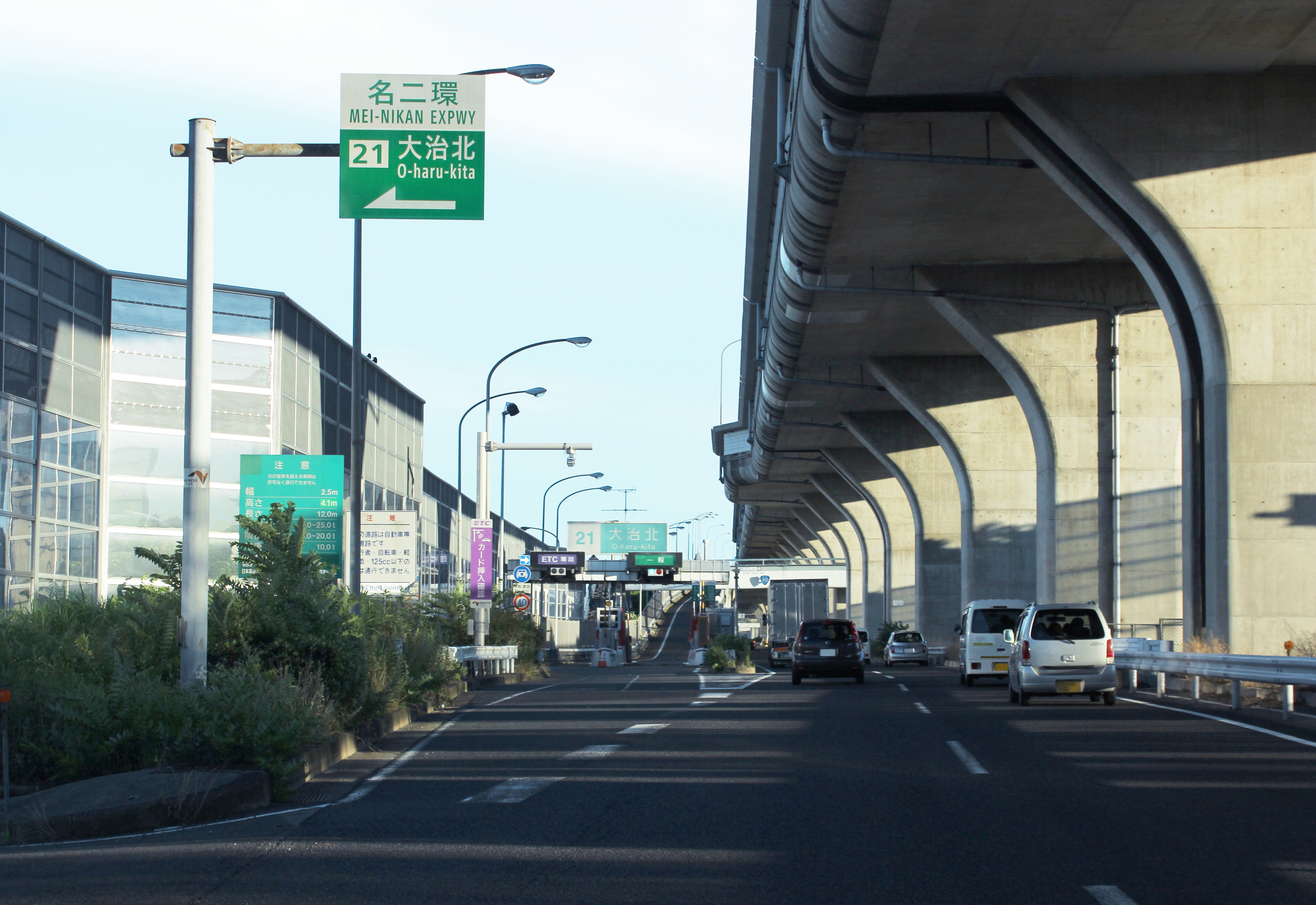 Oharu-kita Interchange on the Nagoya-Daini-Kanjo (Meinikan) Expressway